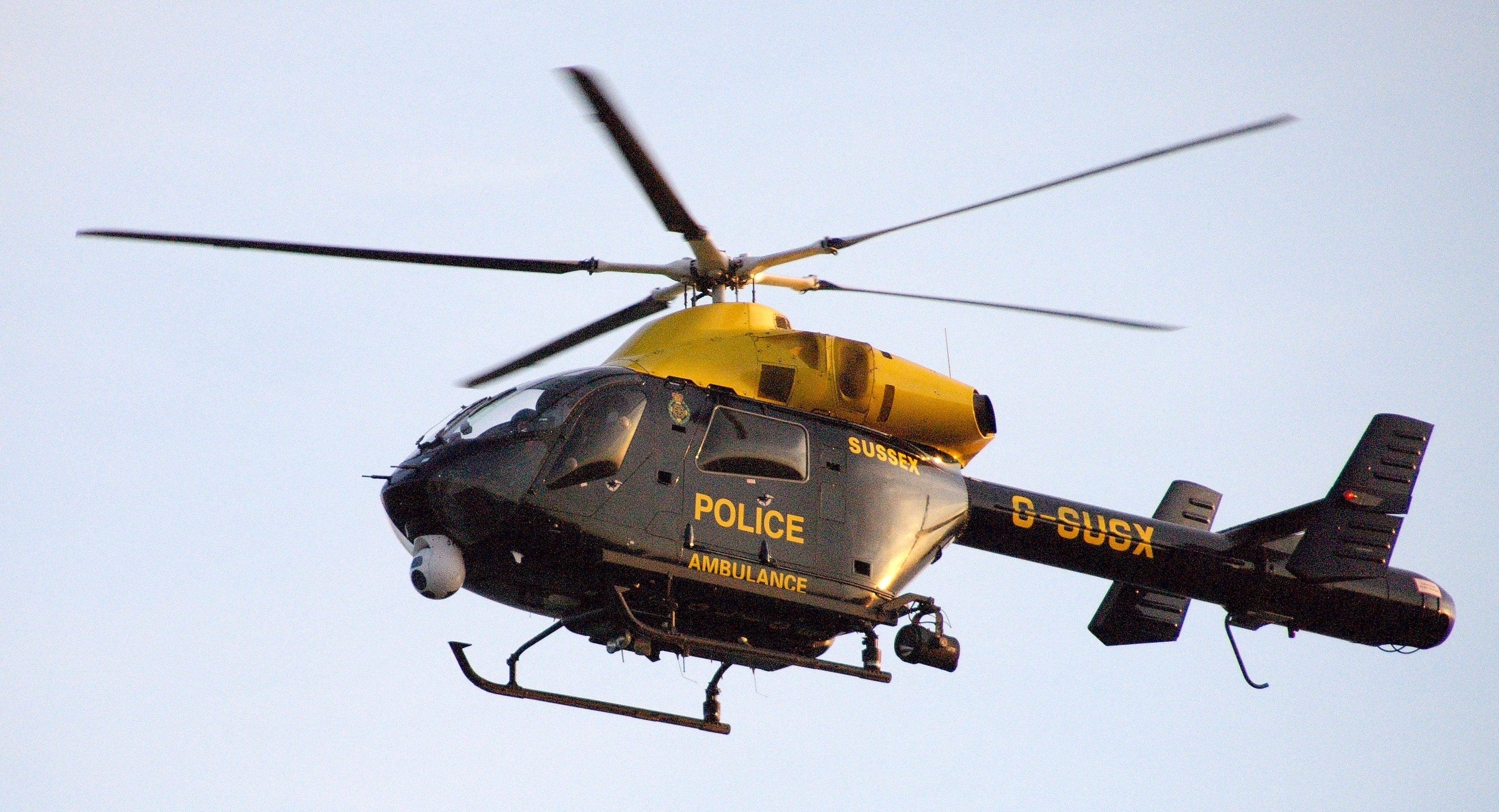 Sussex Police helicopter H900 (The Eye in the Sky)